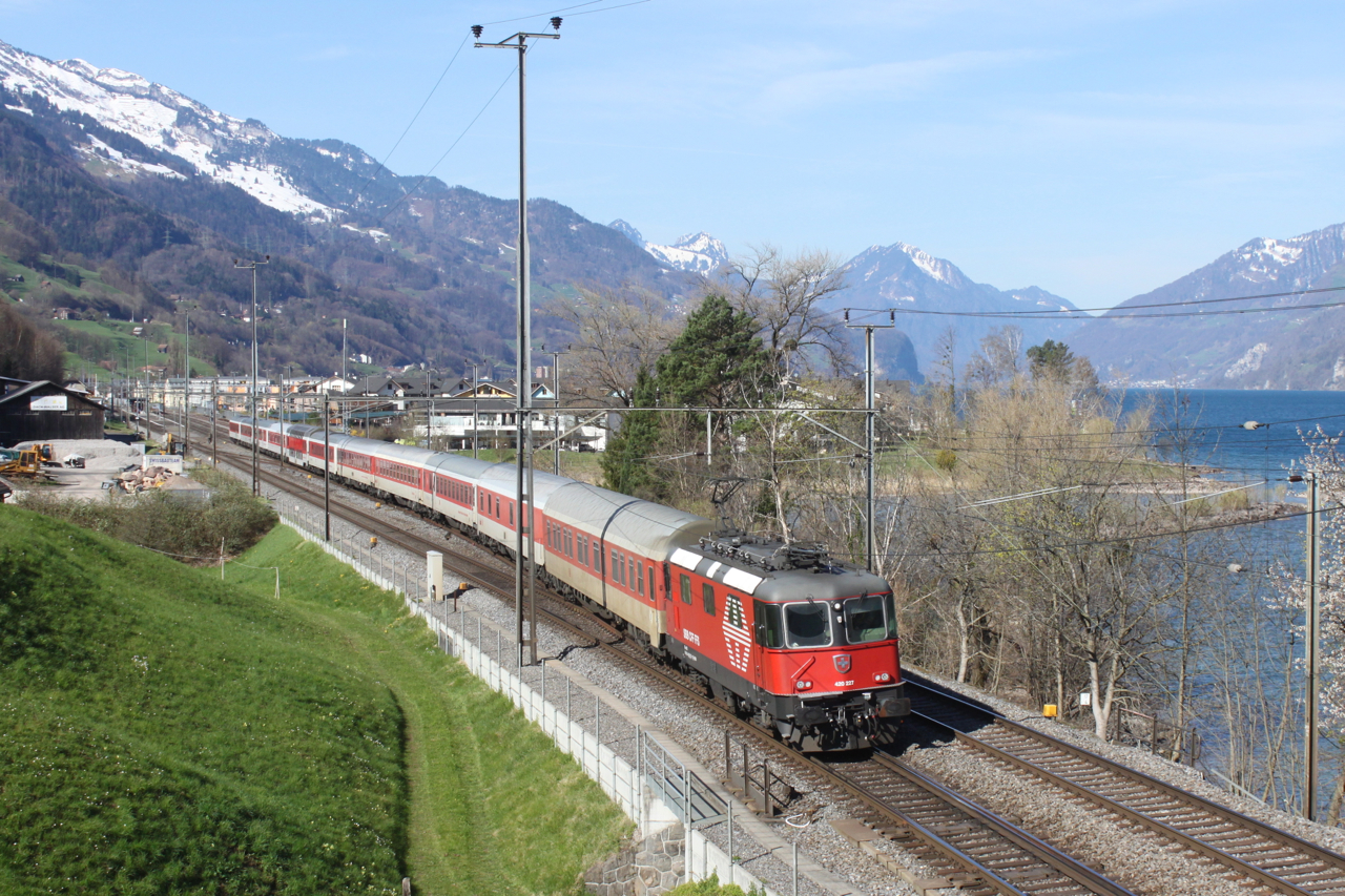 SBB CFF FFS Re 420 227 ahead of CNL 1179 to Chur has just passed Unterterzen railway station.